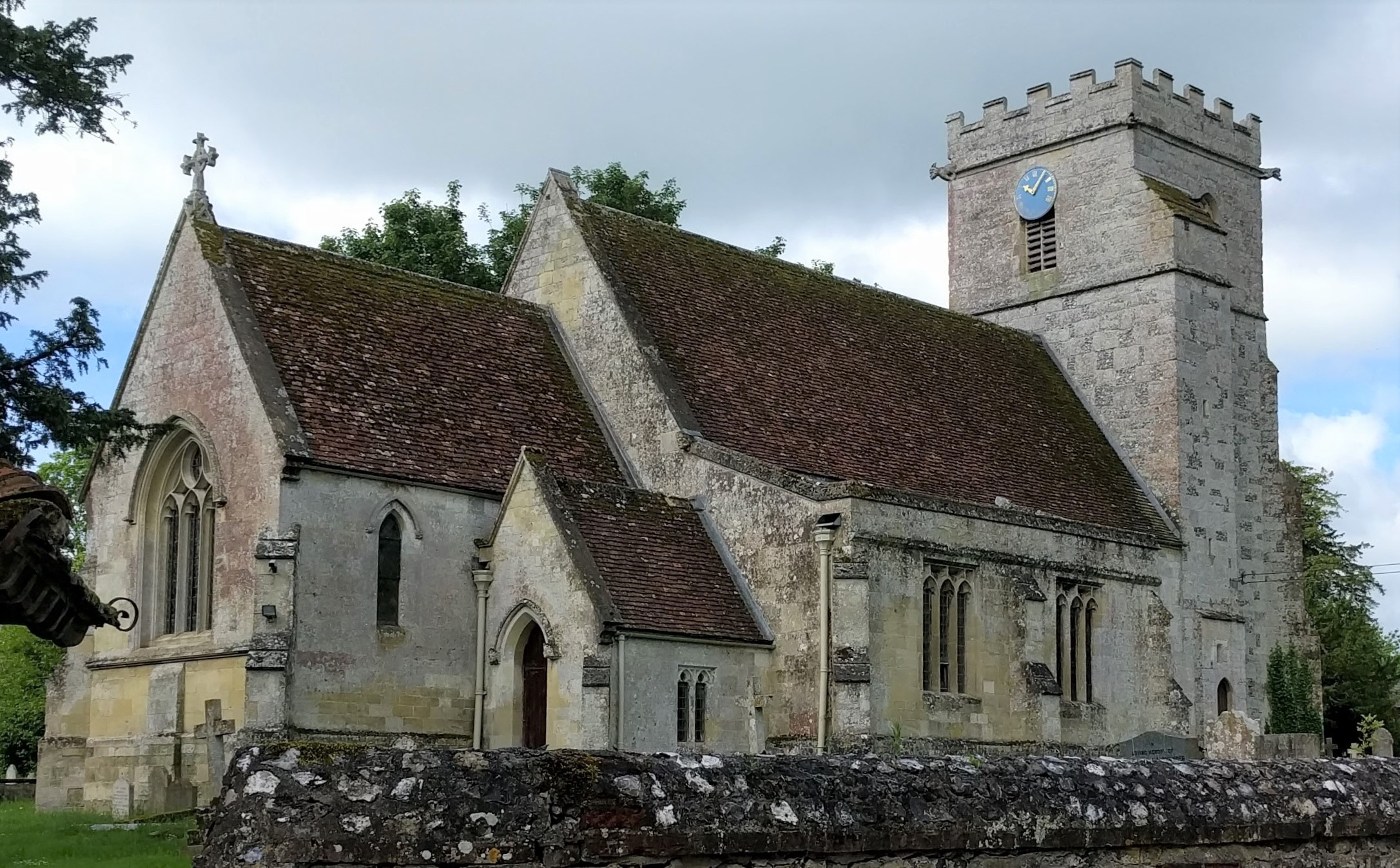 View of Church